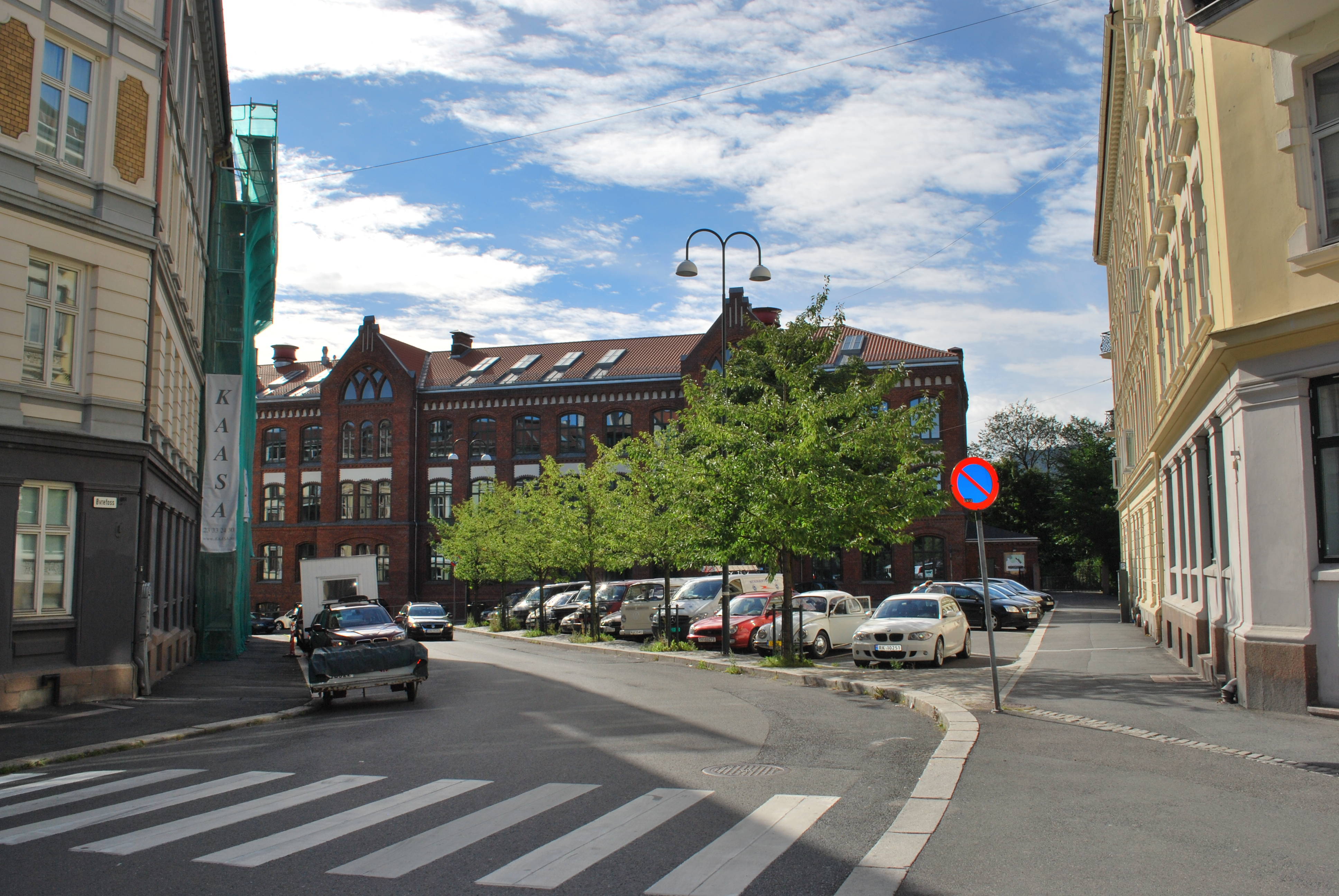 Nini Roll Ankers plass (square), Grünerløkka, Oslo